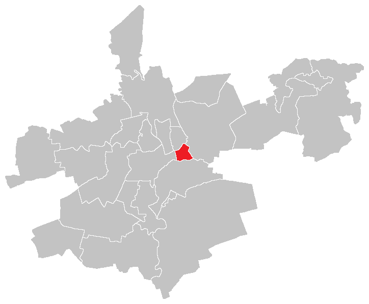 Location map of Olomouc district Bělidla